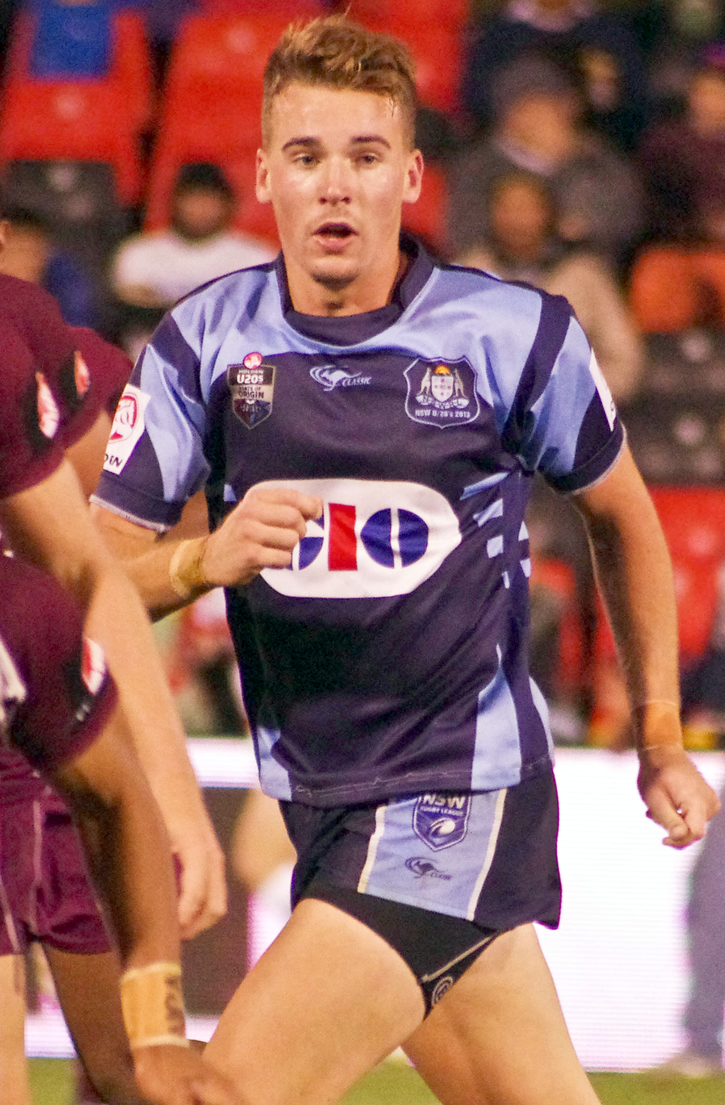 Clinton Gutherson